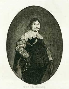 Peder Vibe, Danish stateman and landowner